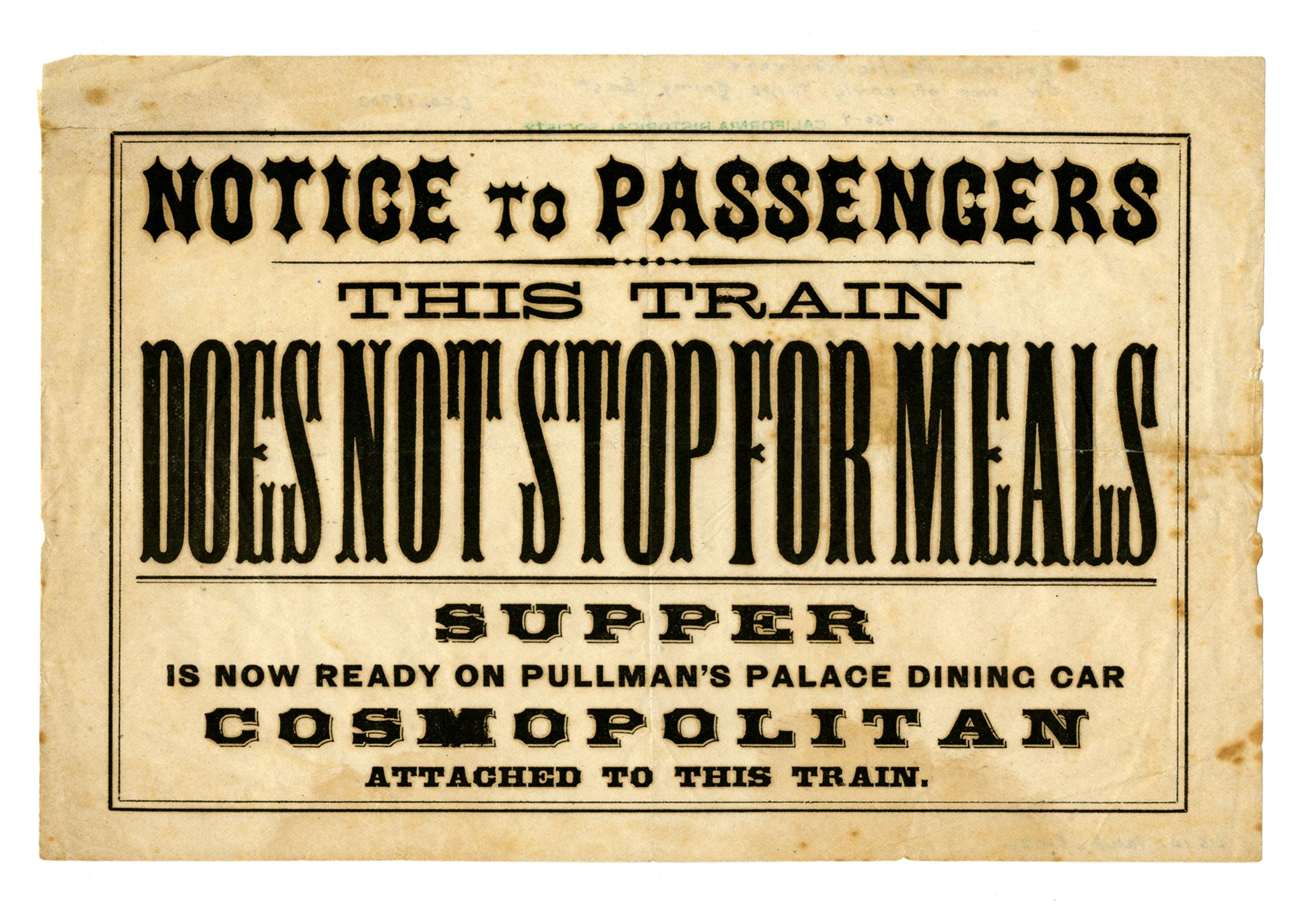 Repository: California Historical Society Creator: Central Pacific Railroad. Date: Undated Publication Note: [S.l. : s.n., ca. 1870] Physical Note: 1 sheet ; 15 x 23 cm. Call Number: Vault B-026 Digital object ID: Vault_B-026.jpg Preferred Citation: Notice to passengers: this train does not stop for meals: supper is now ready on Pullman’s Palace Dining Car Cosmopolitan, attached to this train, Vault B-026, courtesy, California Historical Society, Vault_B-026.jpg.